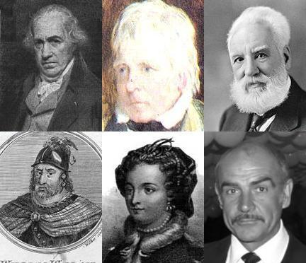 Collage of images representing the Scottish people. Up (from left to right): James Watt, Walter Scott, Alexander Graham Bell. Down: William Wallace, Mary, Queen of Scots, Sean Connery.